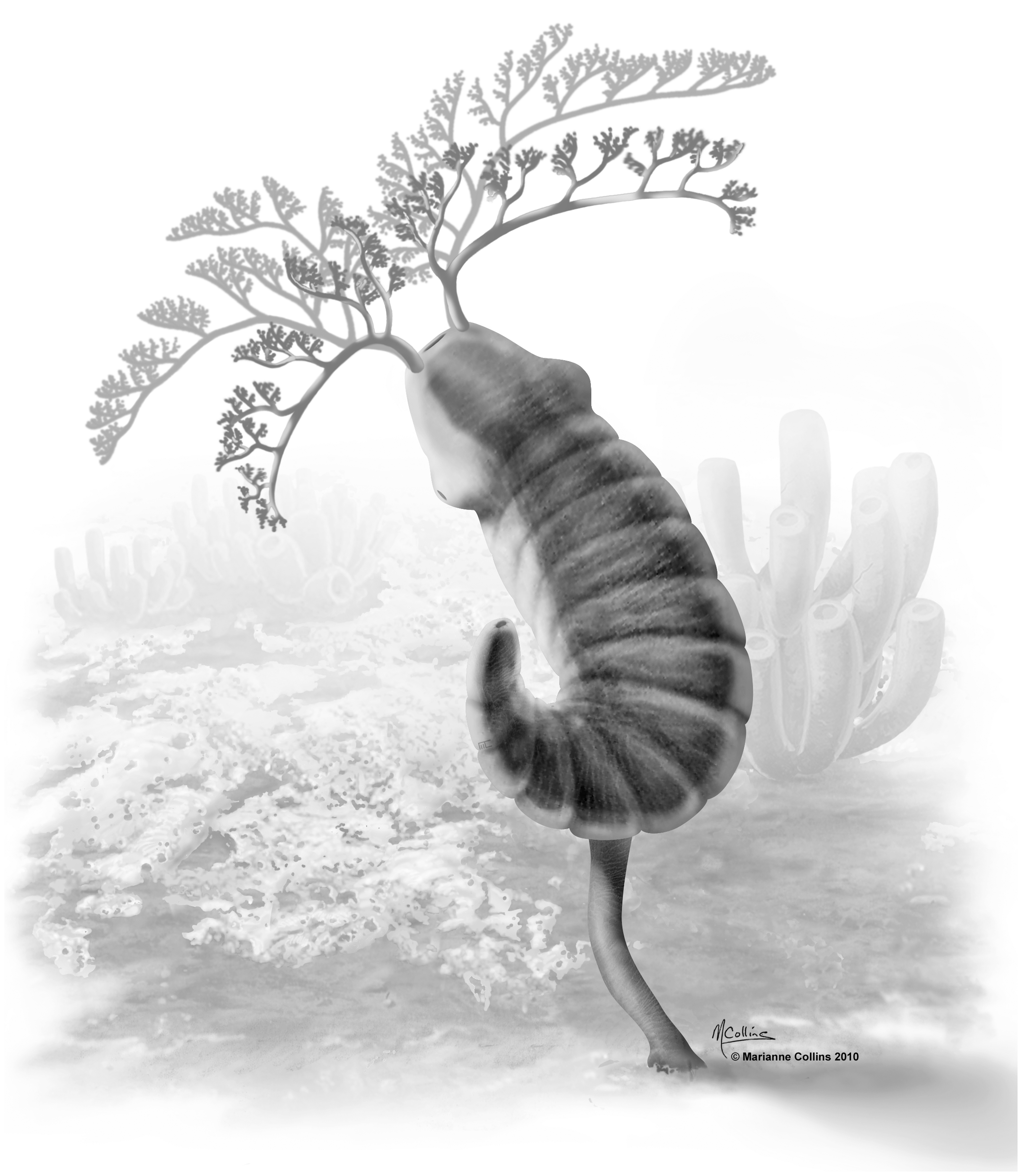 Artist's view of Herpetogaster collinsi from the middle cambrian Burguess Shale